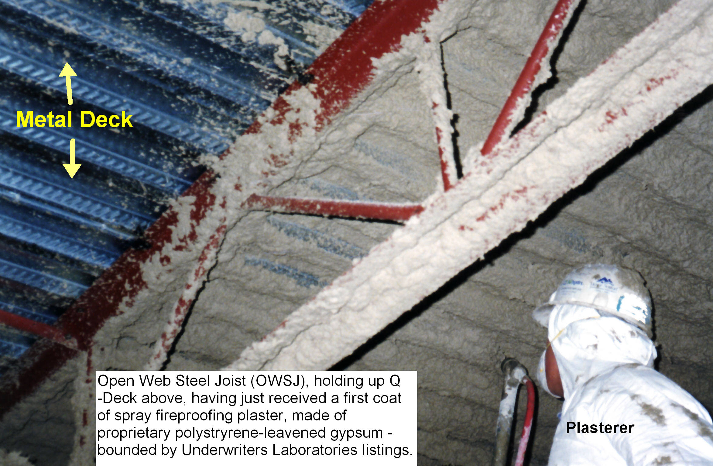 Metal deck and OWSJ (Open Web Steel Joist), receiving first coat of spray fireproofing plaster, made of polystyrene leavened gypsum, all subject to bounding on the basis of Underwriters Laboratories product certification listings.